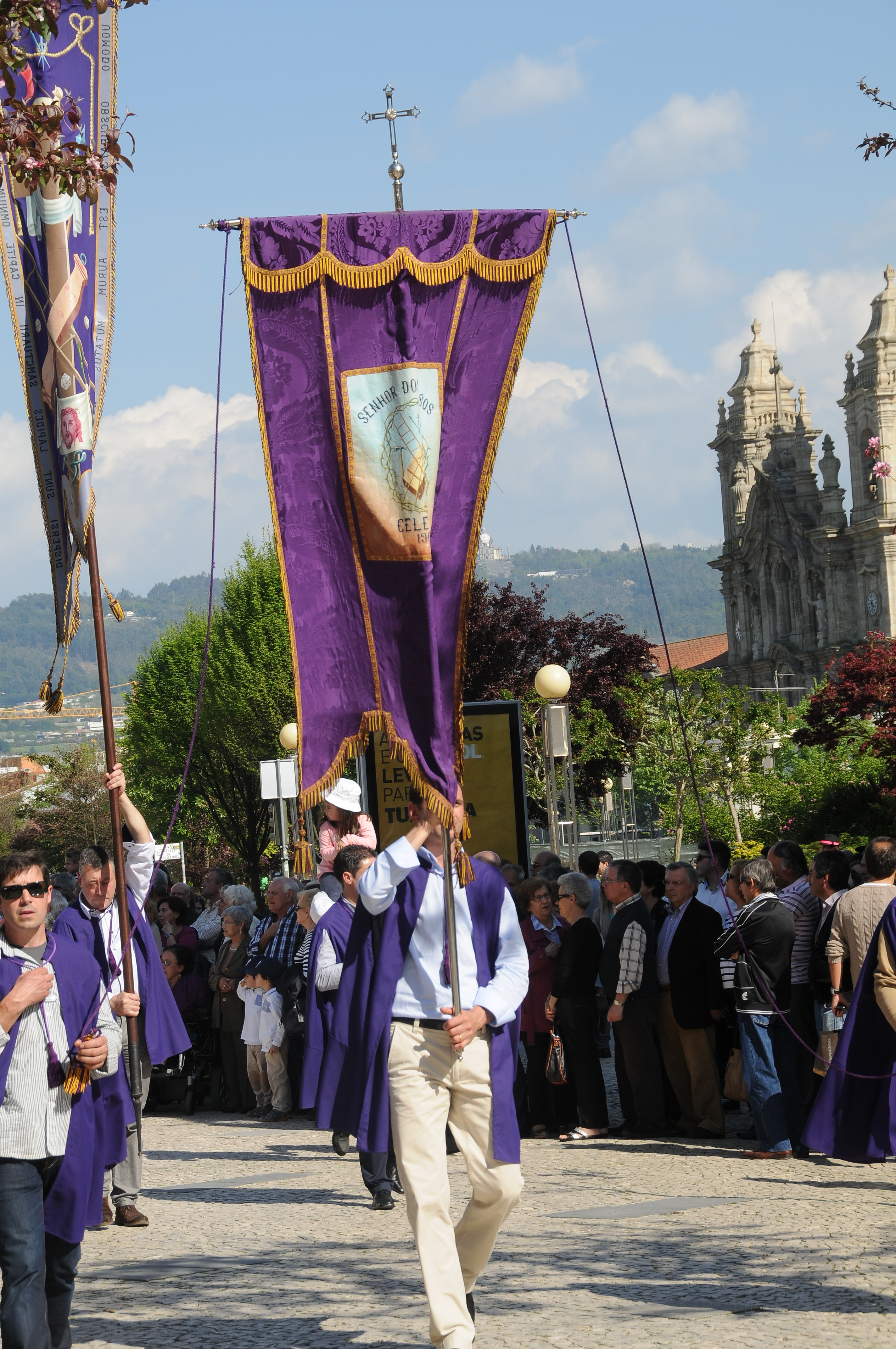 Procession of the religious standards, in Braga, Portugal